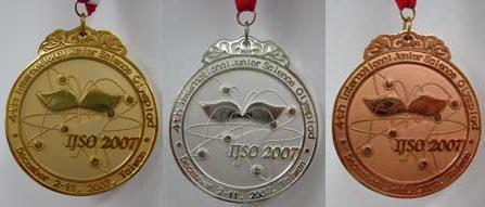 Medalhas da IJSO 2007.